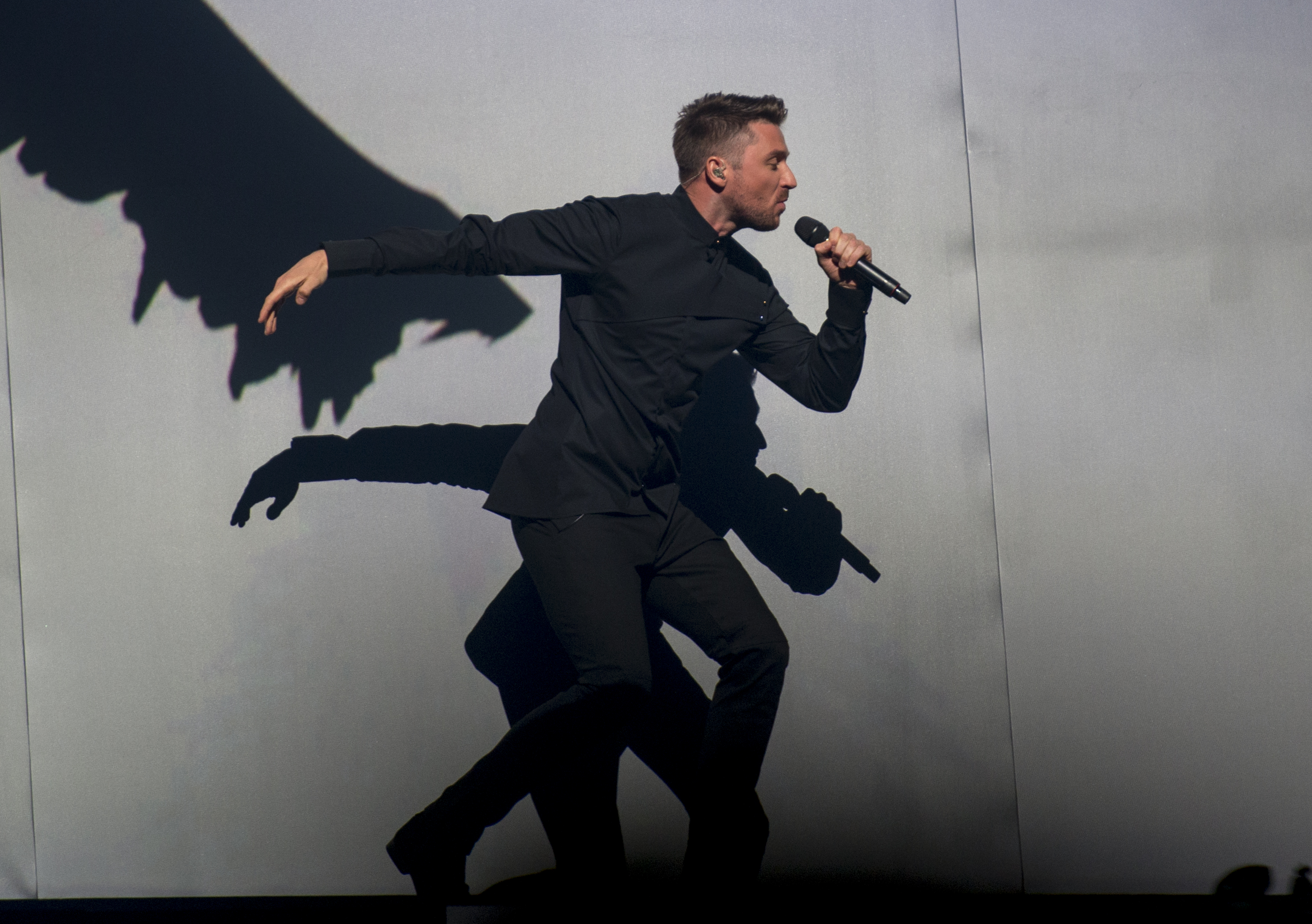 Sergey Lazarev representing Russia with the song "You Are the Only One" during a rehearsal before the first semi final of the Eurovision Song Contest 2016 in Stockholm. (Help translate this text)